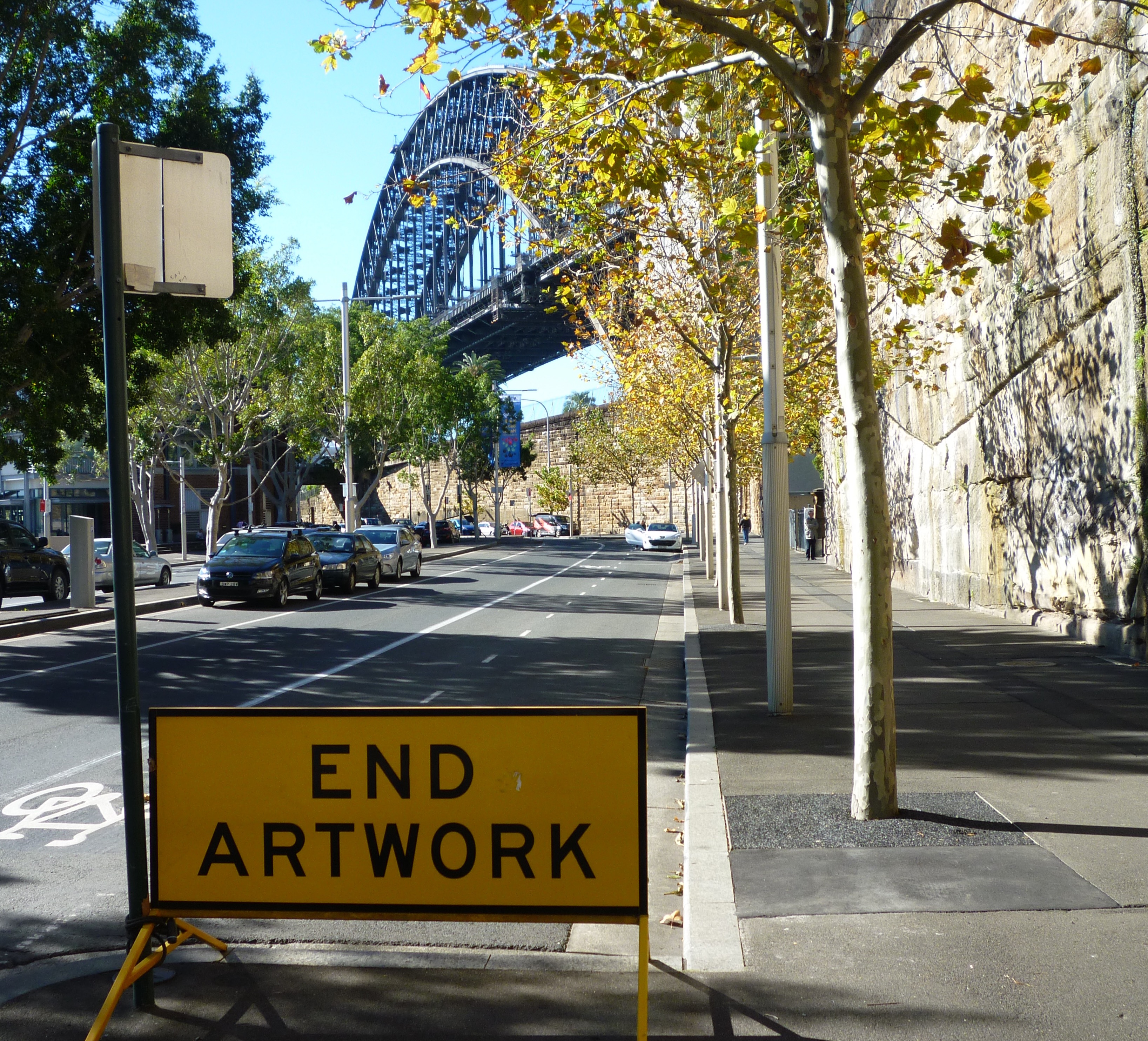 Street view of one part of Tipping's two part art work, Sydney, (part one is at File:Tipping "Artwork" (2004).jpg)